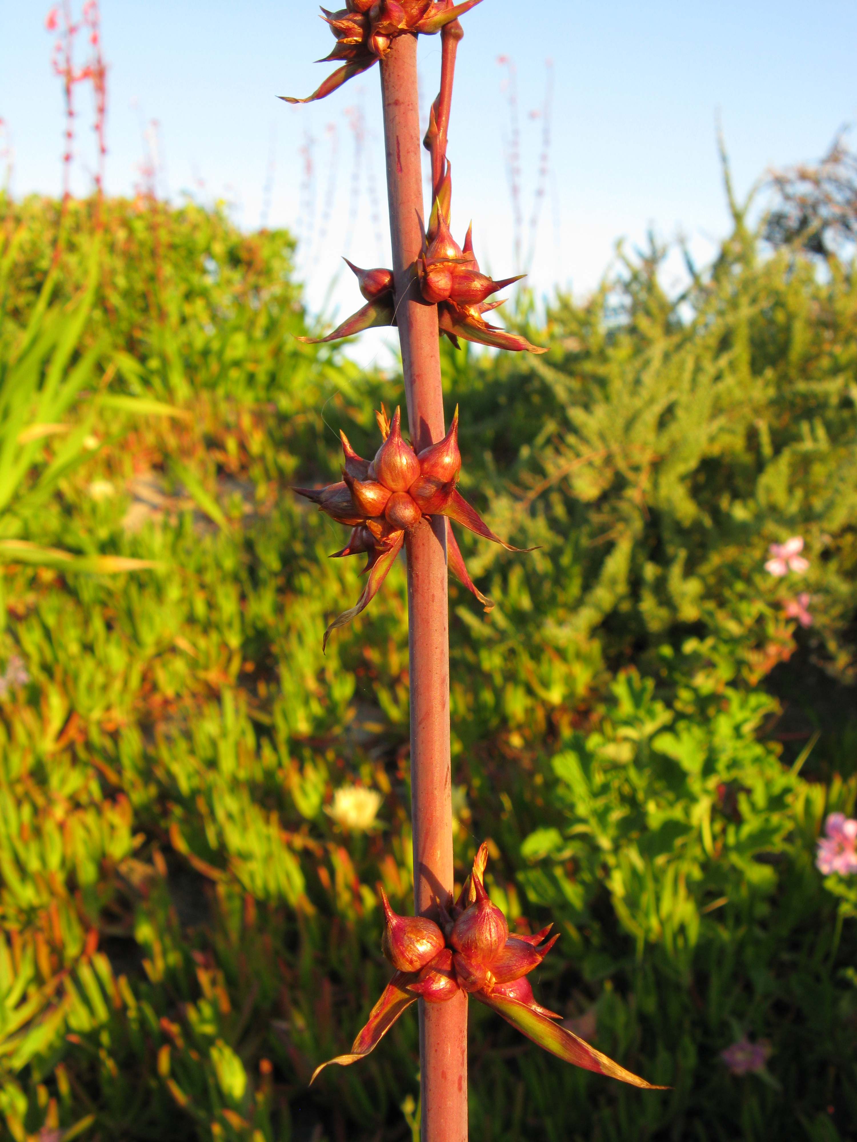 Watsonia meriana is unusual in growing cormlets (usually incorrectly referred to as bulbils) in the axils of bracts at the nodes of the inflorescence